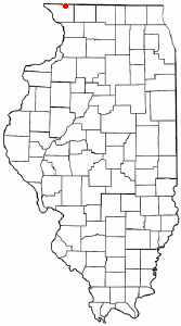 Category:Illinois city locator maps